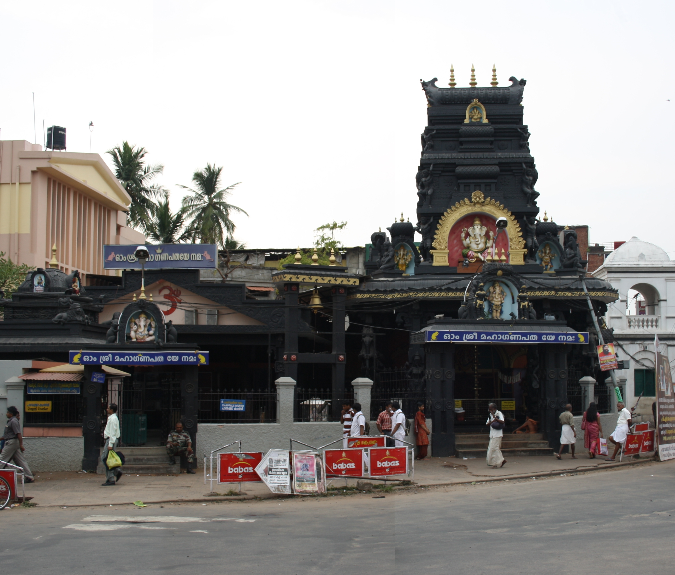 pazhavangadi Ganapathi temple, Thiruvananthapuram.